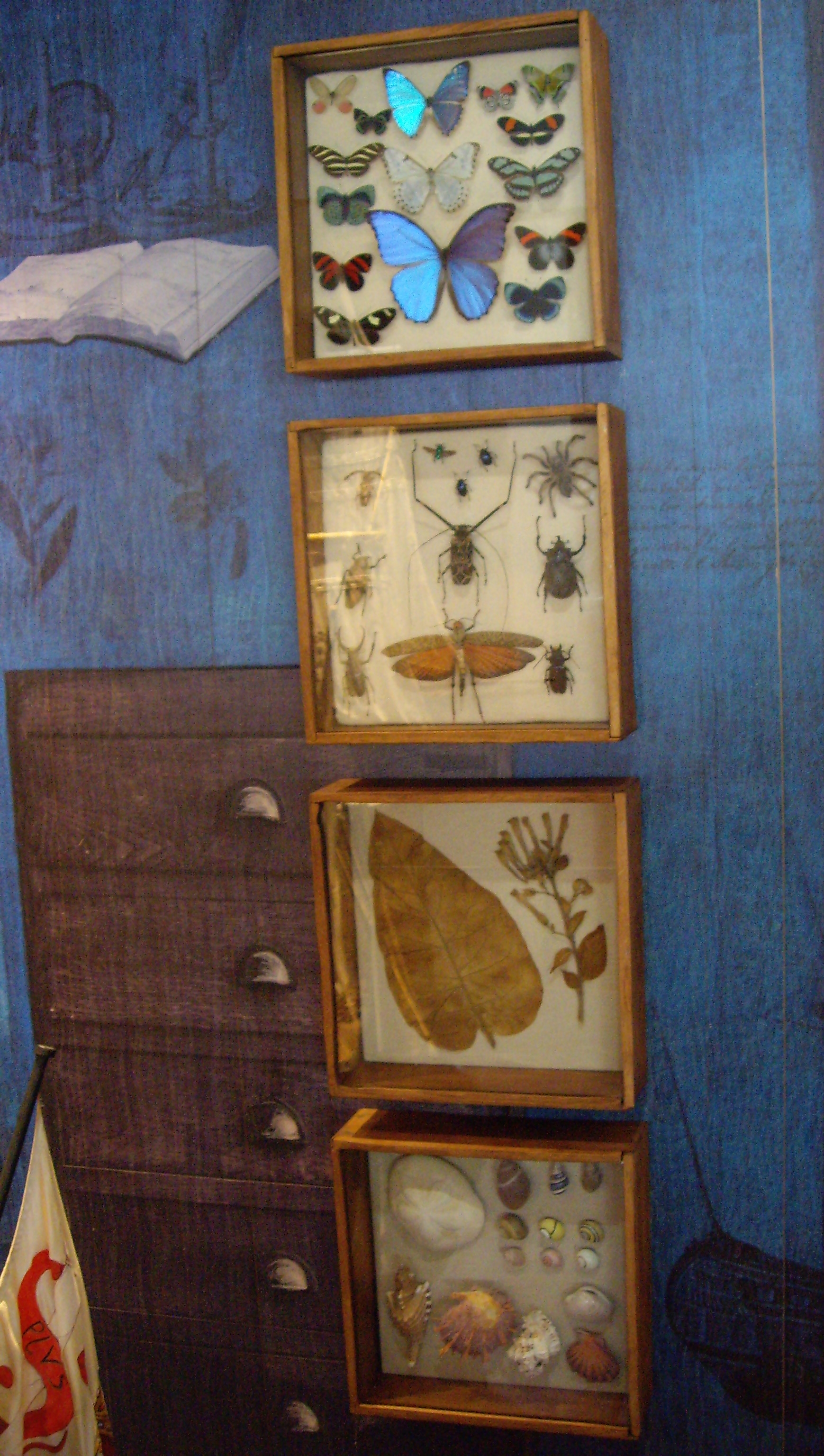 muestras de botánica americana en el pabellón de la navegación de sevilla similar a la recolectada por celestino mutis 2